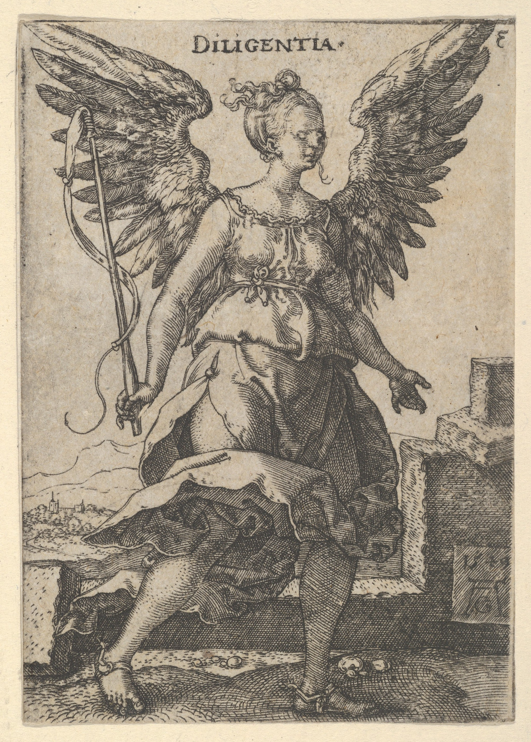 Print; Prints